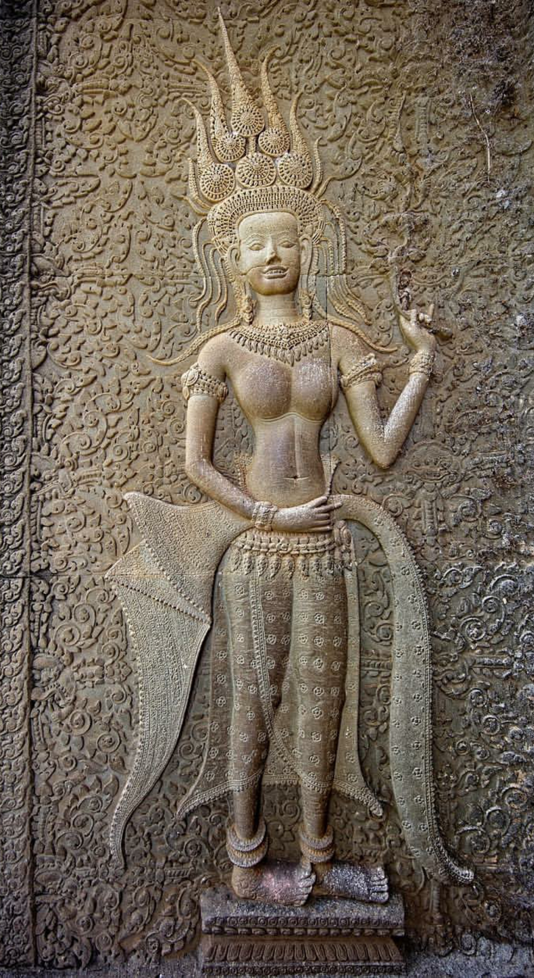 One of all Apsara sculptures on the wall of Angkor Wat. It shows about an Apsara dancer or girl in Angkor Royal Palace in 12th century.